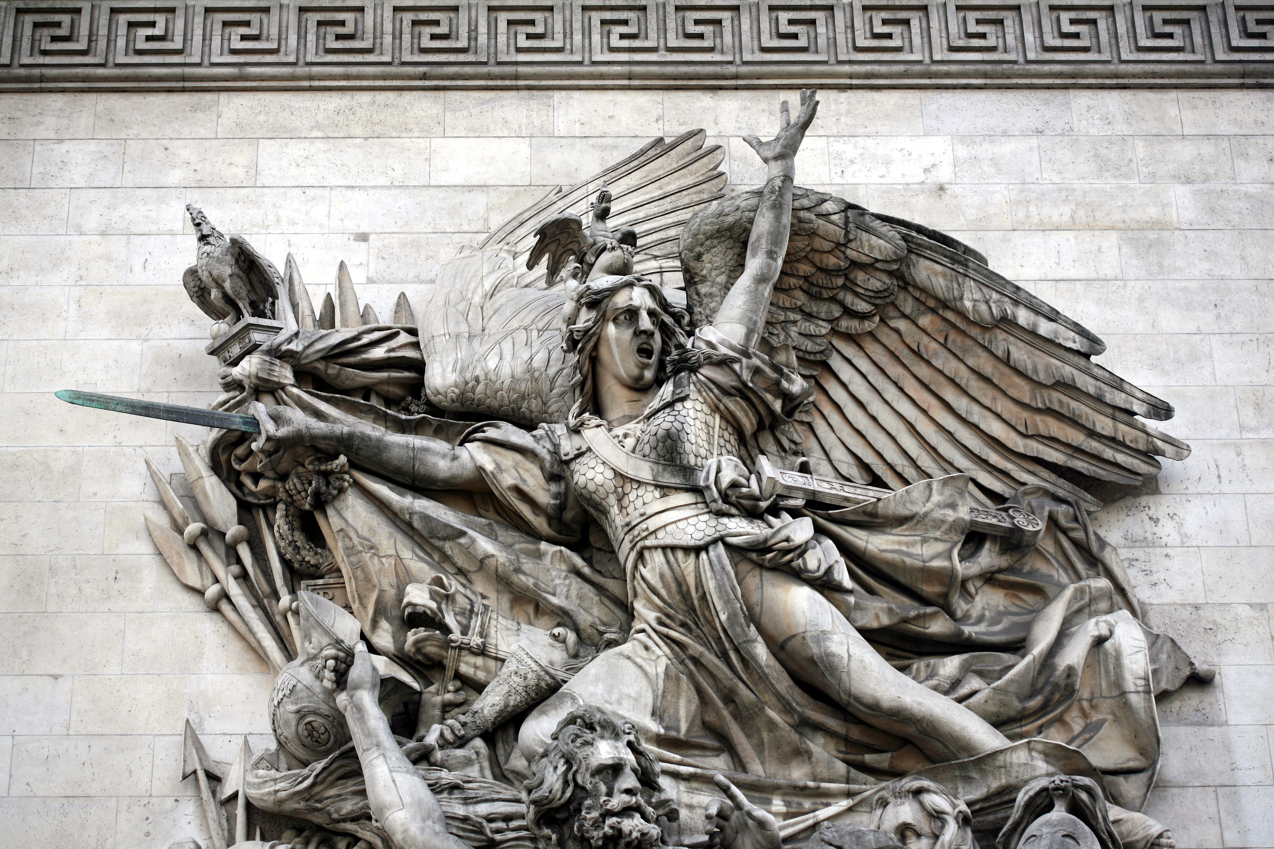 details of the Arc de Triomphe